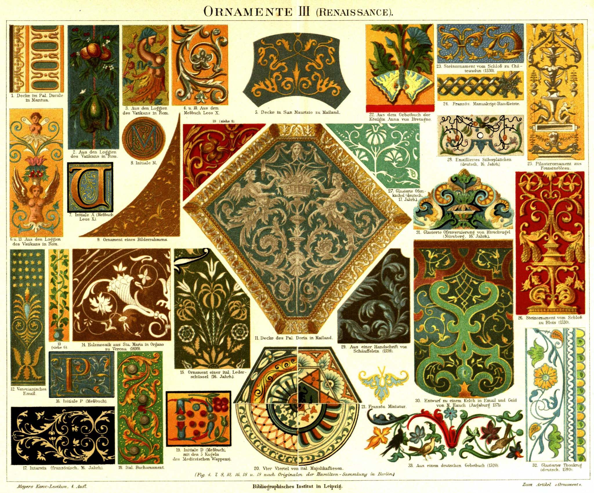 This is page 450c, as numbered of 1028, in Volume 12 of the German illustrated encyclopedia Meyers Konversationslexikon, 4th edition (1885-1890), fraktur font, title "Ornaments III (Renaissance)" showing 33 types of ornaments (ornamental designs) c. 1888.